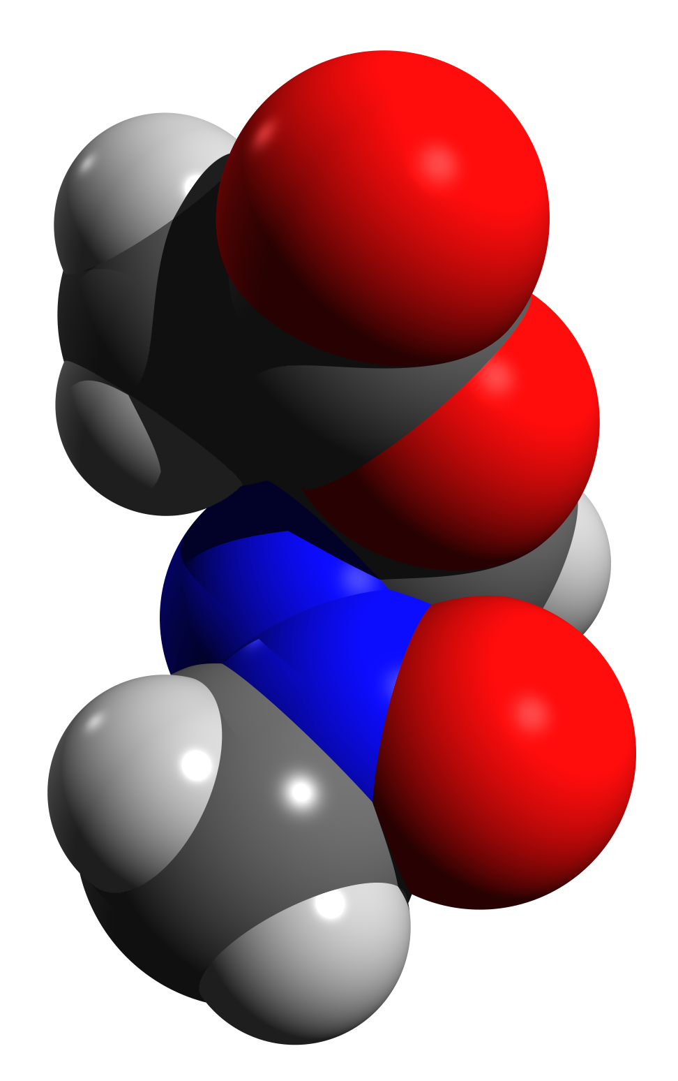 3D space-filled rendering of methylazoxymethanol acetate, made and optimized using Avogadro (software), rendered using POV-ray.